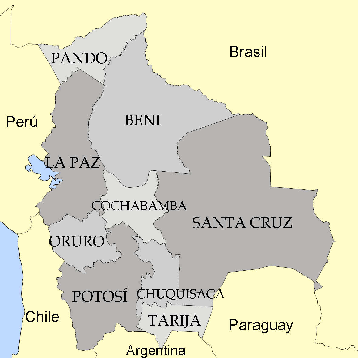 Map of the departments of Bolivia with names.